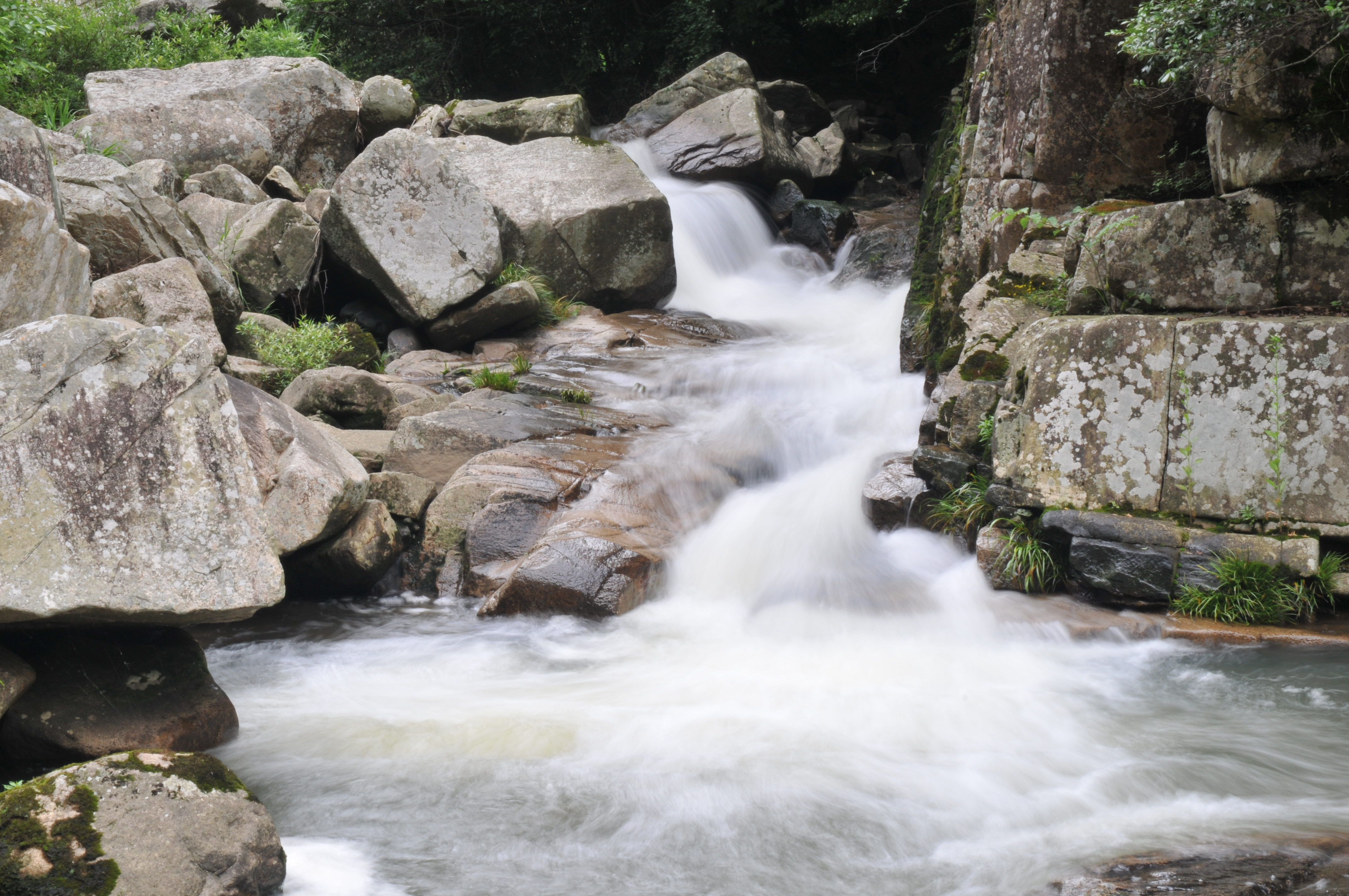 Gou-kei ravine